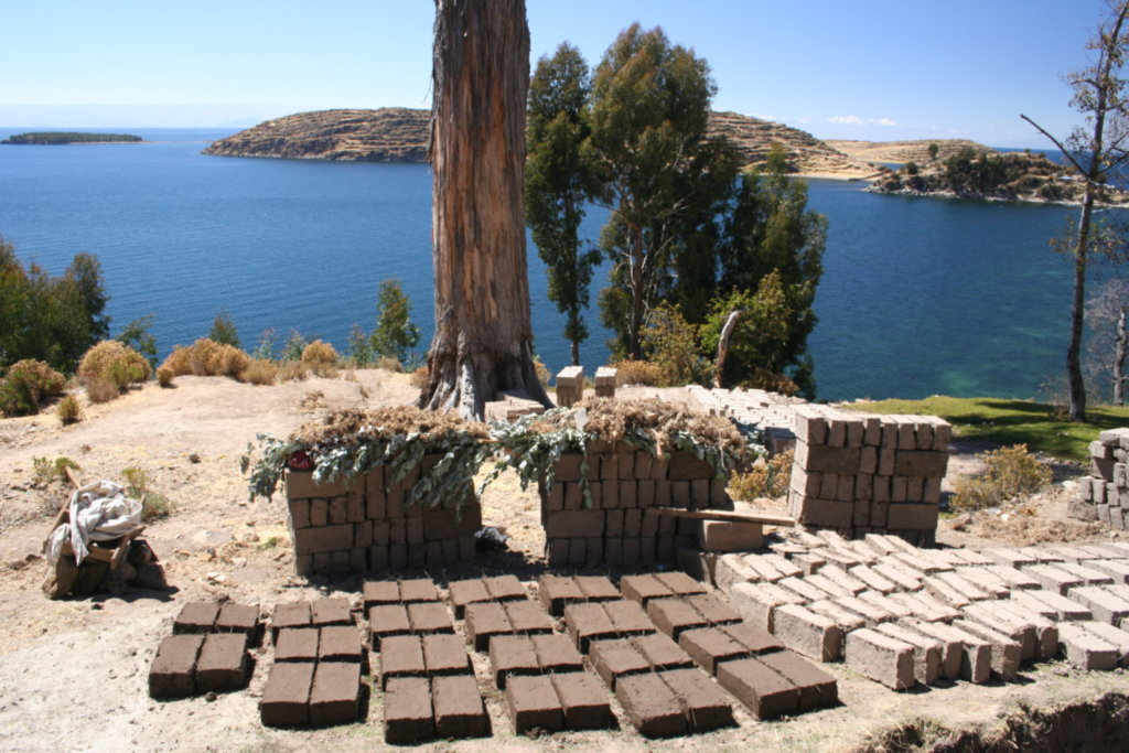 Adobe bricks drying in the sun (Isla del Sol, Titicaca lake, Bolivia)